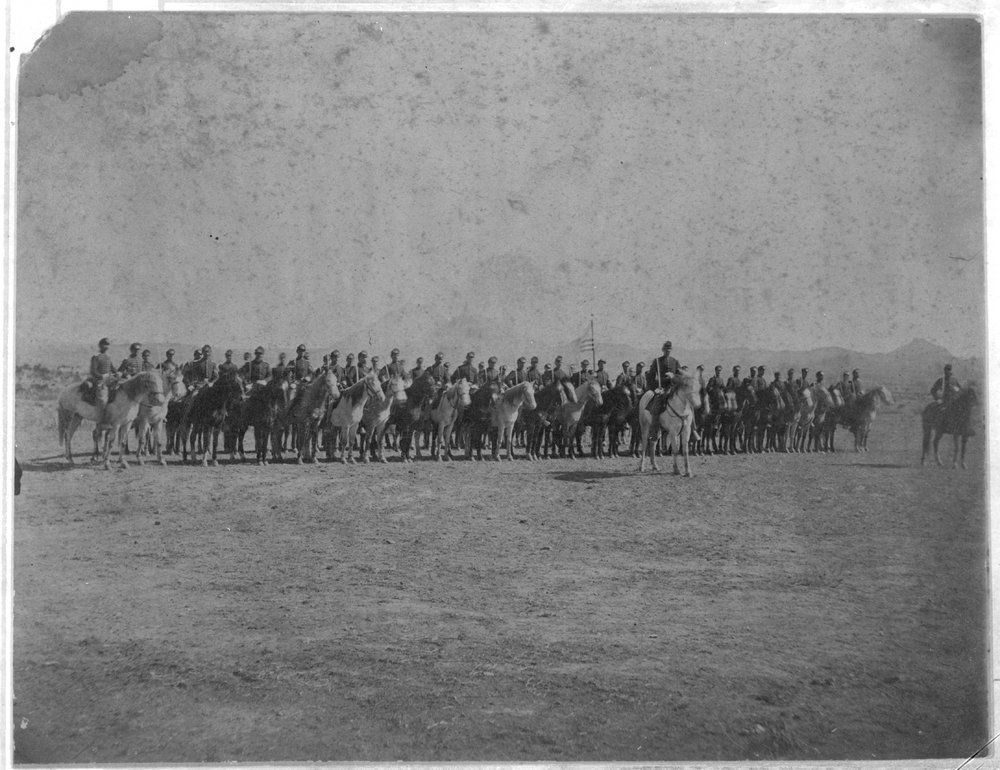 The I Troop, 8th U. S. Cavalry in New Mexico, on the white horse is Captain (brevet major) James Monroe Williams. Kansas Historical Society